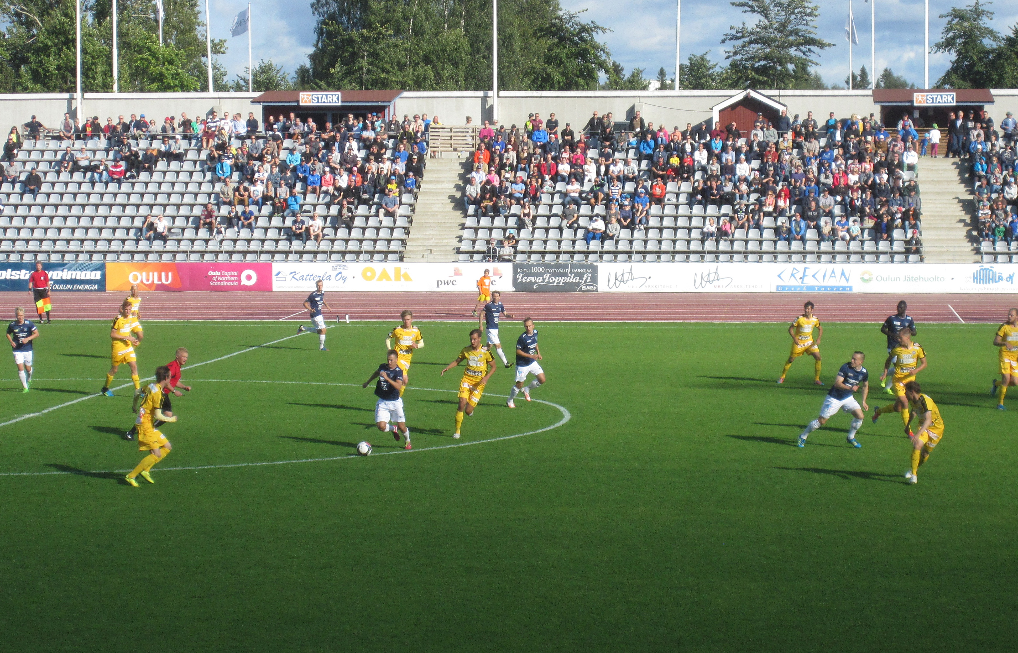 AC Oulu vs TPS at the Raatti Stadium in Oulu.